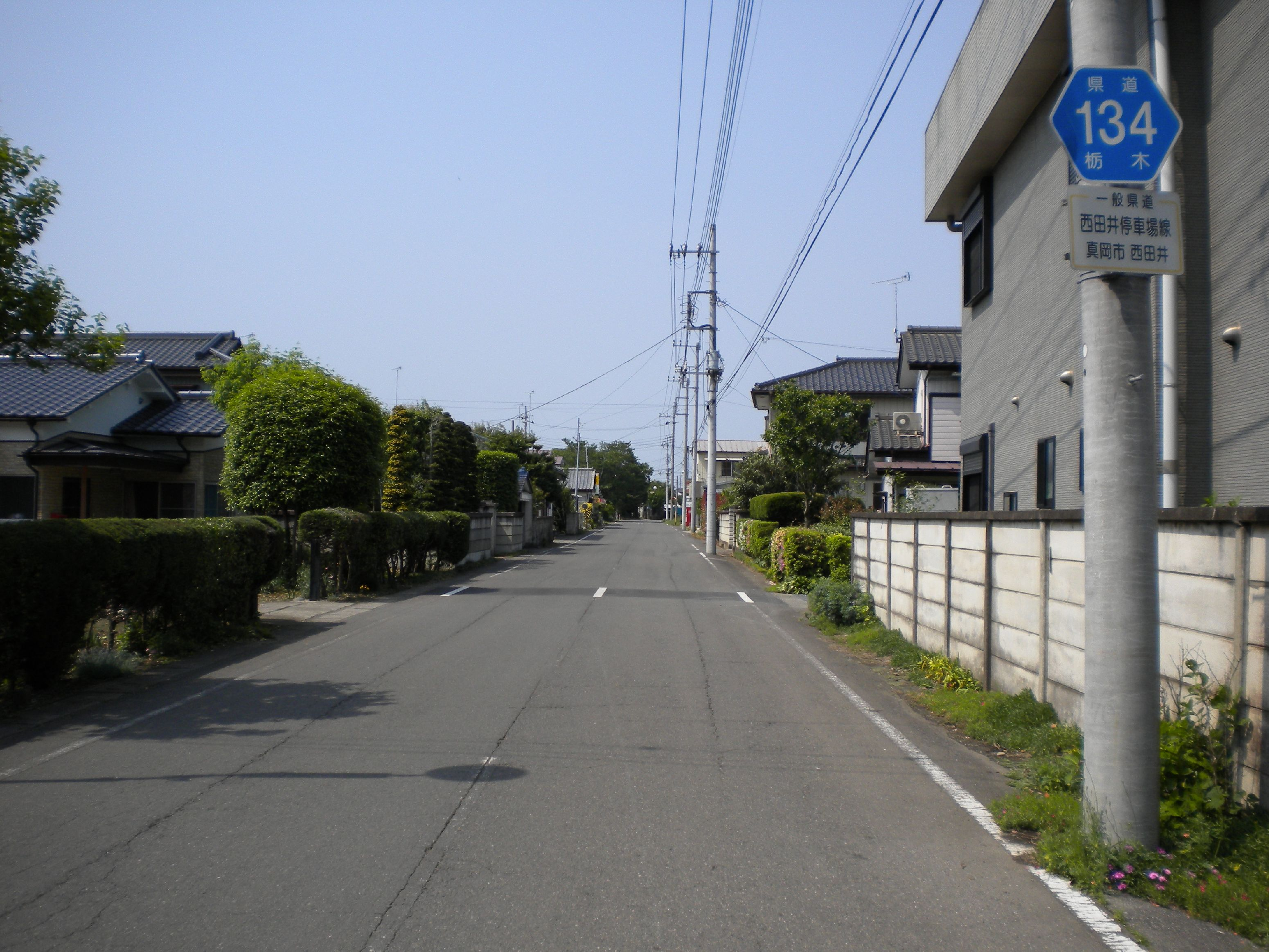 Tochigi prefectural road No.134 on Moka city